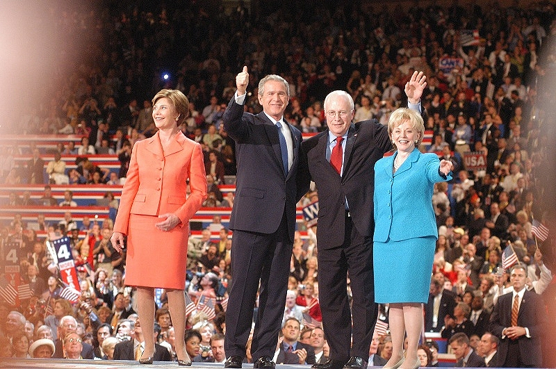 Bush and Cheney families at the en:2004 Republican National Convention